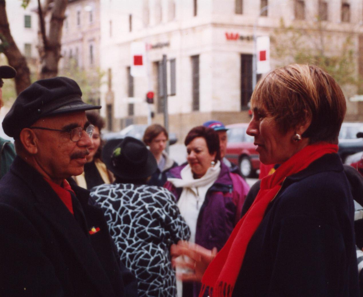 Harold Thomas, designer of the Australian Aboriginal Flag, speaking with Jane Lomax-Smith outside Parliament House, Adelaide, at an event marking the 30th anniversary of the flag, 8 July 2001. Original filename = FP3. Cropped scan of 35mm print.